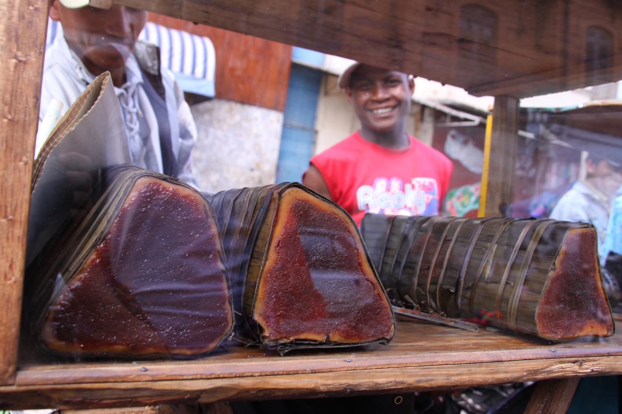 Koba (kobindravina), a dessert or snack eaten in the highlands of Madagascar, made from peanuts, brown sugar and rice flour.